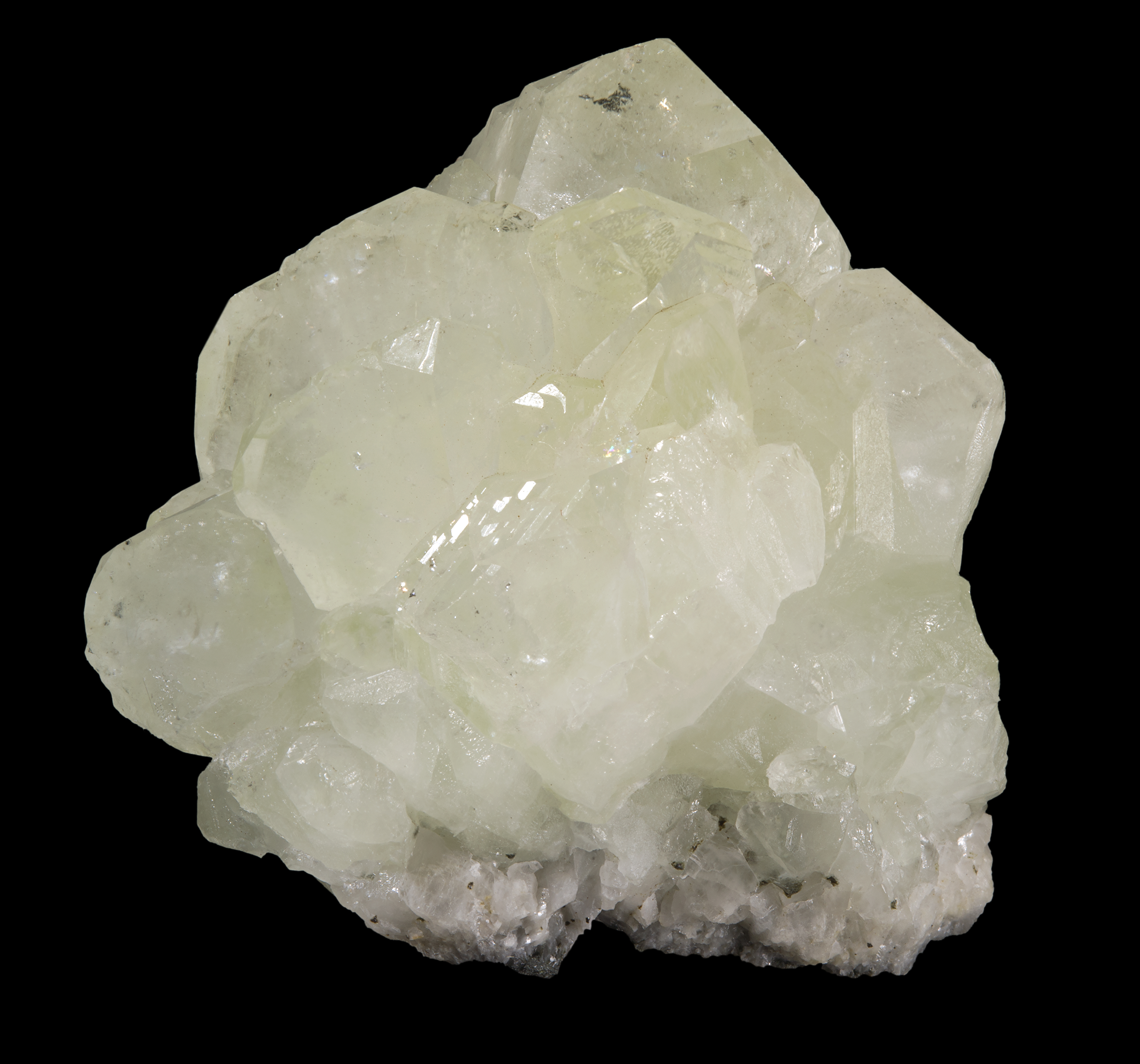 Datolite Locality : Roncari quarry (Tilcon quarry), East Granby, Hartford Co., Connecticut, USA Size : 4.2x4.0x3.6 cm